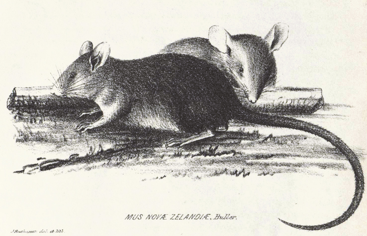 Illustration of Polynesian Rat, Rattus exulans from an article entitled 'On the New Zealand Rat. (With Illustrations.)', by Walter Buller, Transactions and Proceedings of the Royal Society of New Zealand, Volume 3, 1870, between pages 2 & 3. The Polynesian or Pacific Rat is known in New Zealand and other parts of Polynesia by the Polynesian word kiore.